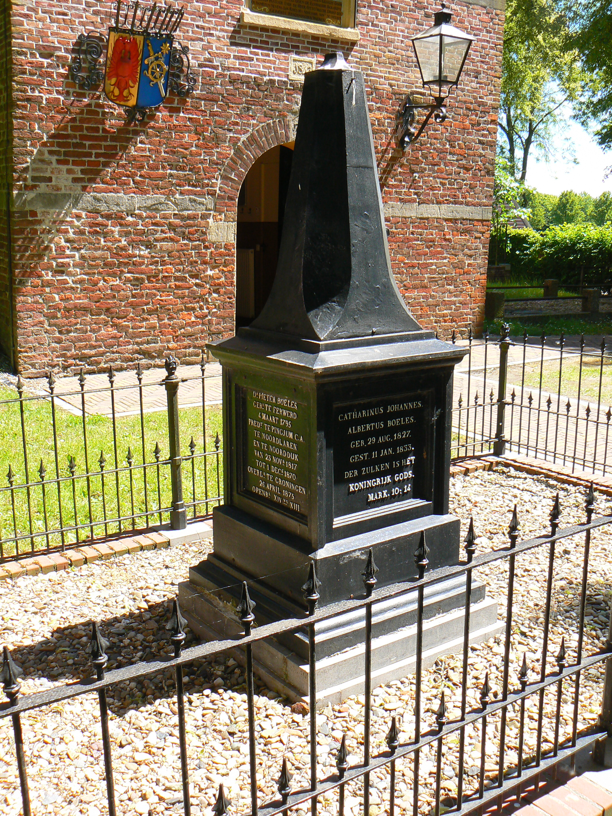 Memorial Pieter Boeles in Noorddijk (Groningen)/The Netherlands